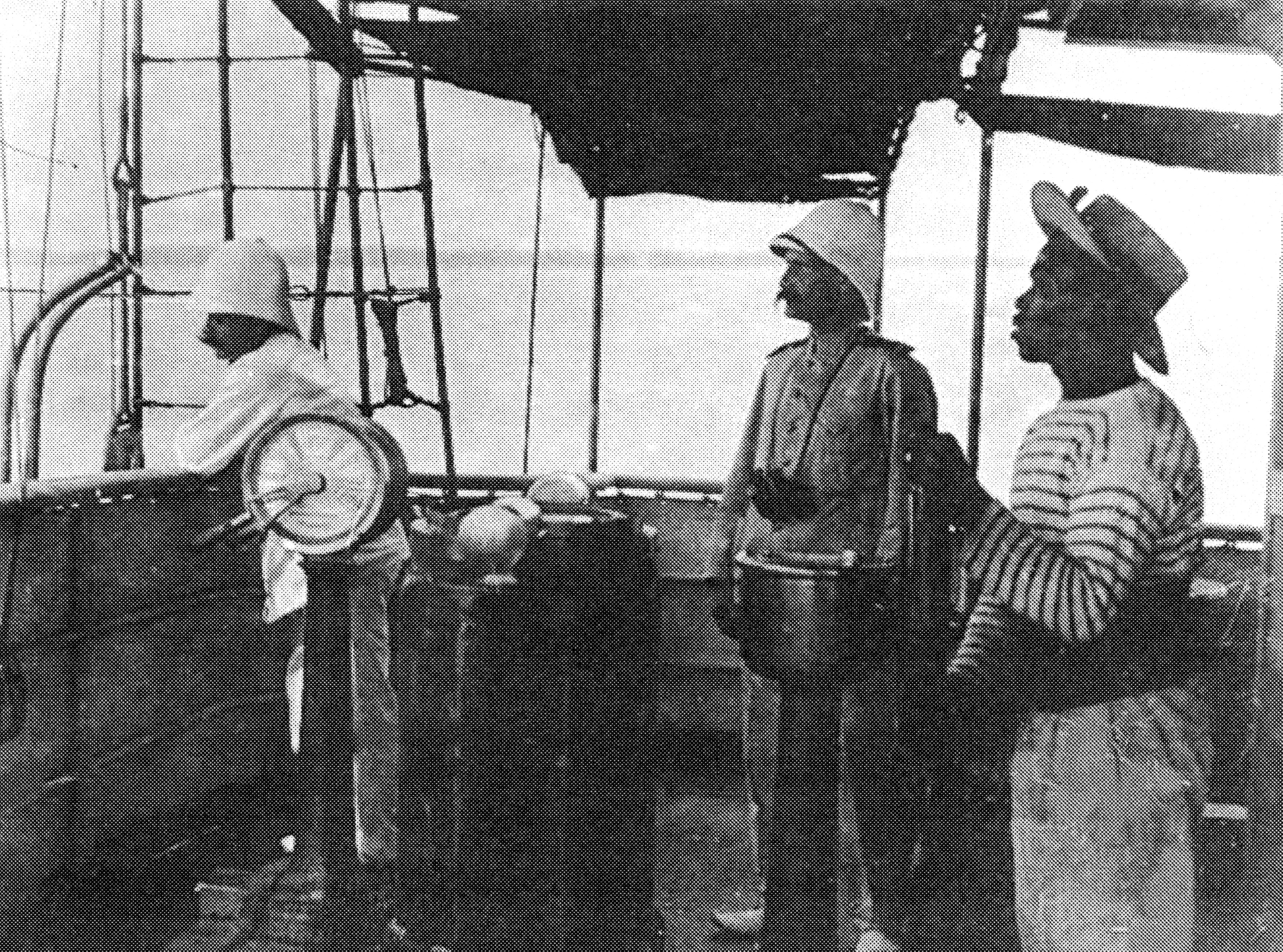 The former German government steamer HERZOGIN ELISABETH as a French auxiliary patrol boat MARGARET ELISABETH in 1916 off the coast of Cameroon.